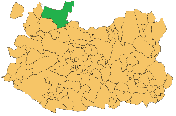 Retuerta del Bullaque